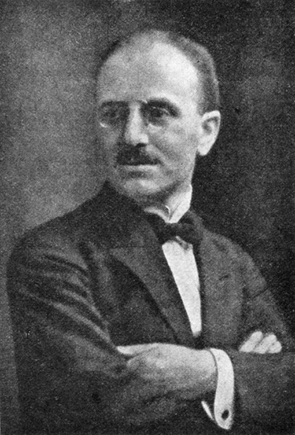 Gustav Winter (1889 – 1943) was a Czech journalist.